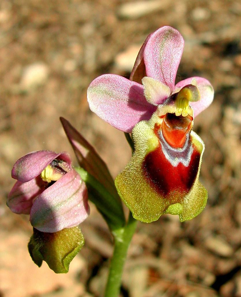 Ophrys tenthredinifera